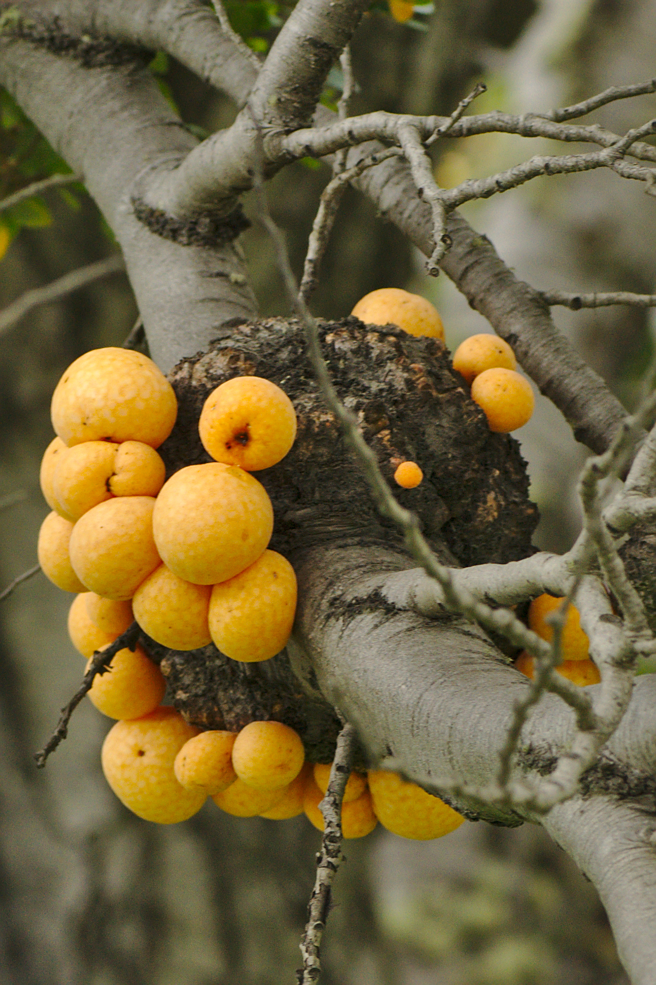 Cyttaria Darwinii in a tree in Tierra del Fuego